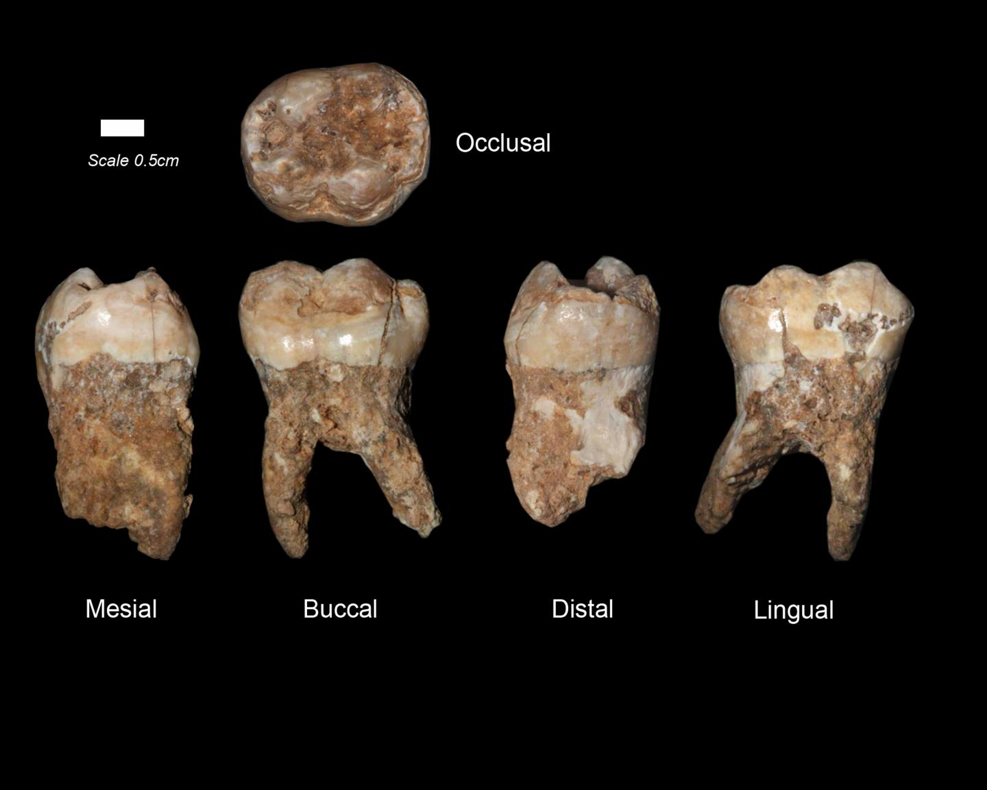 Human teeth from Qesem Cave, Israel